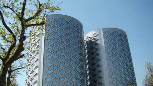 Sugarsilo's Halfweg